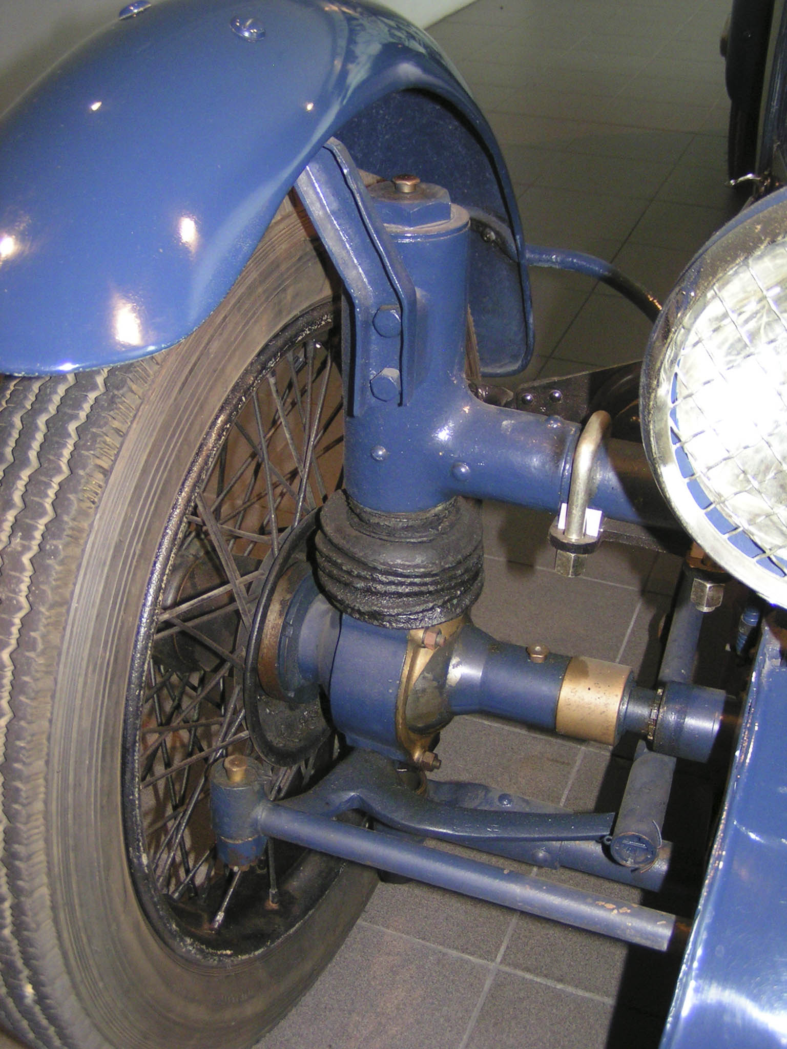 1929 Tracta A CV axle. This car placed first in its class and amazingly with only 995cc seventh overall in the 1929 Le Mans race. This car is original with the exception of a new coat of paint. Here you can clearly see its a fwd machine.1929 Tracta A CV axle